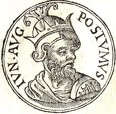 Fictive drawing of Postumus Iunior was according to the Historia Augusta an usurper against Roman Emperor Gallienus, included in the list of the Thirty Tyrants. His existence is doubfull according modern historians.